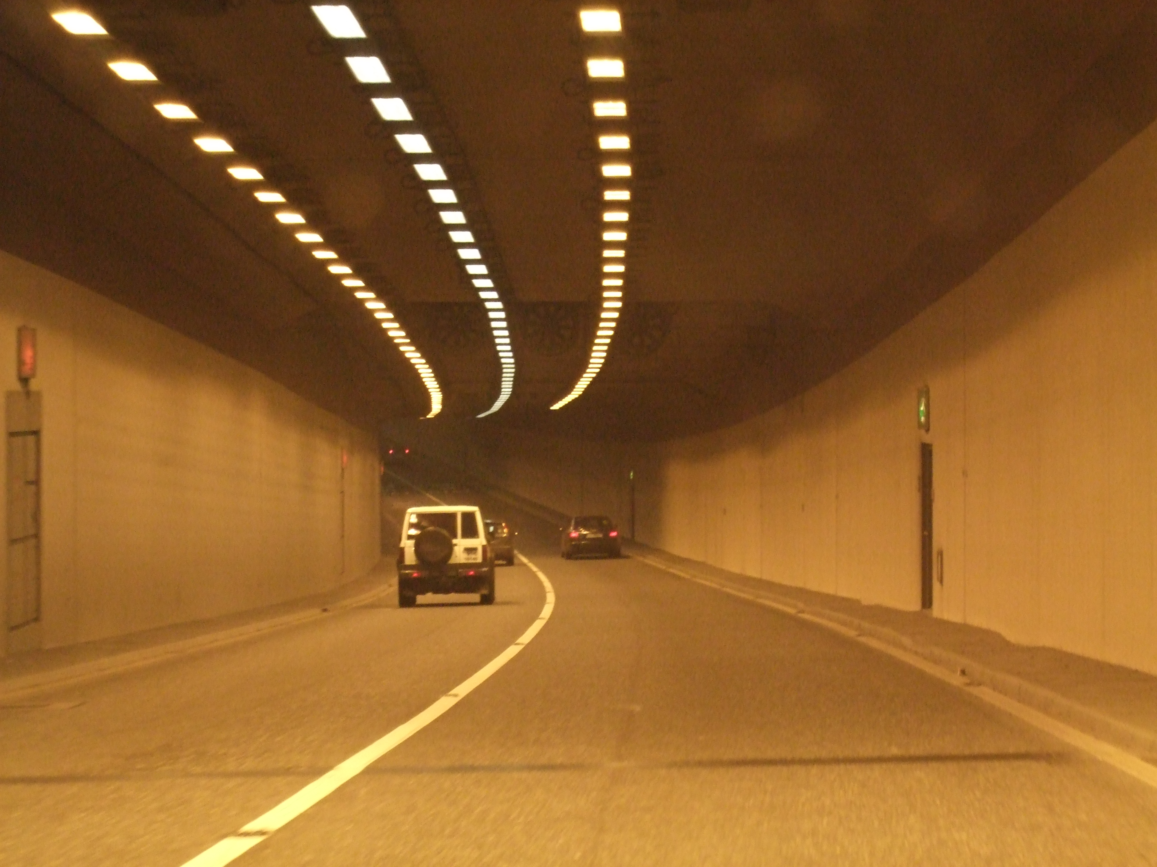 The interior of the southbound bore.